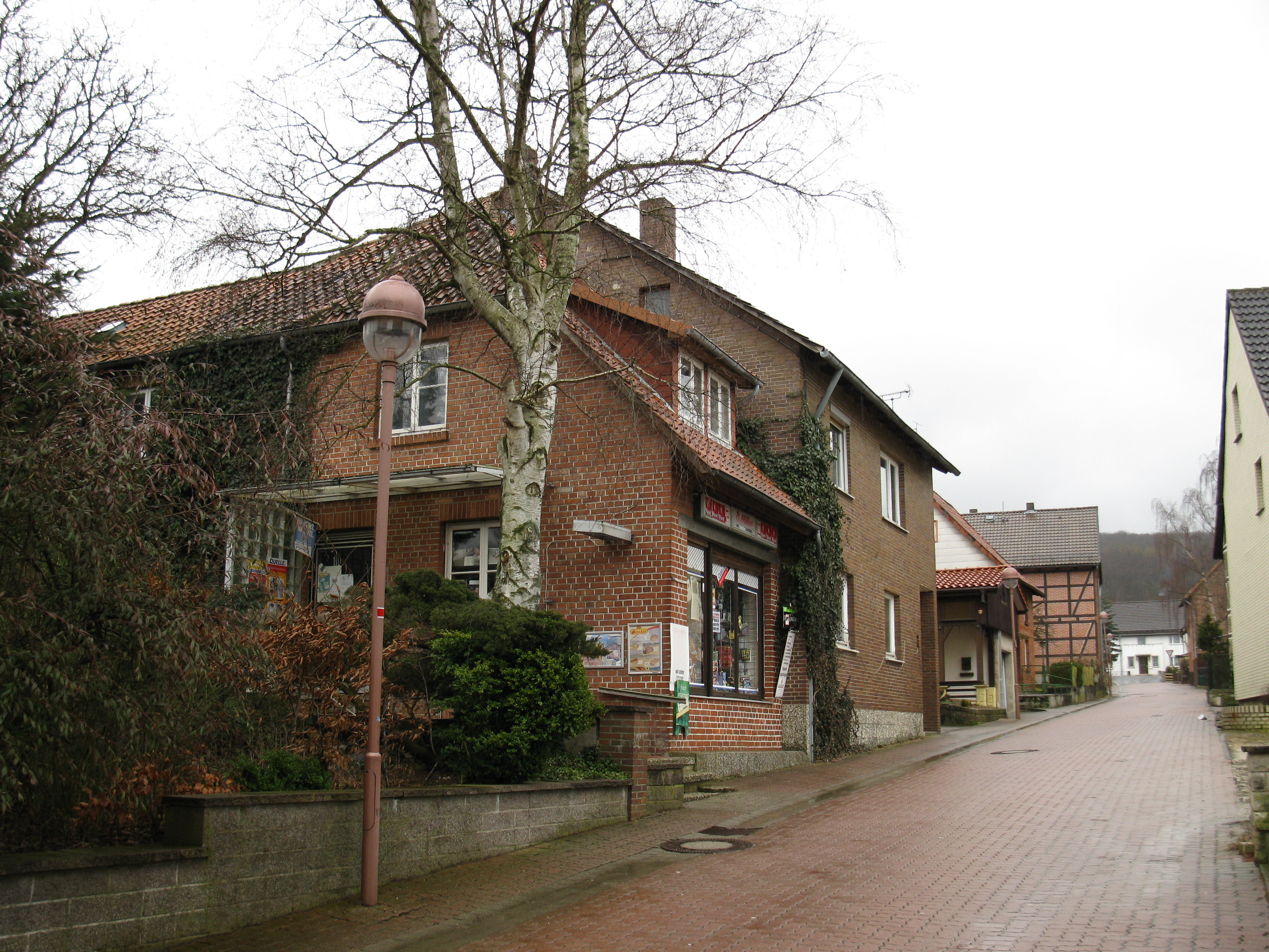 Schäferstraße and village shop, Eberholzen, Germany